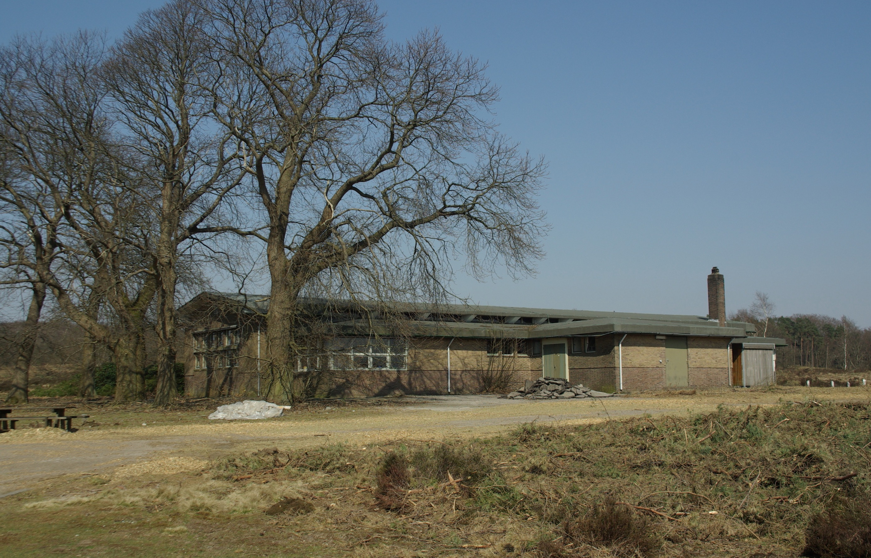 Abandoned shortwave transmitter building ('Building C') of Radio Kootwijk on the Hoog Buurlosche heide near Apeldoorn, The Netherlands